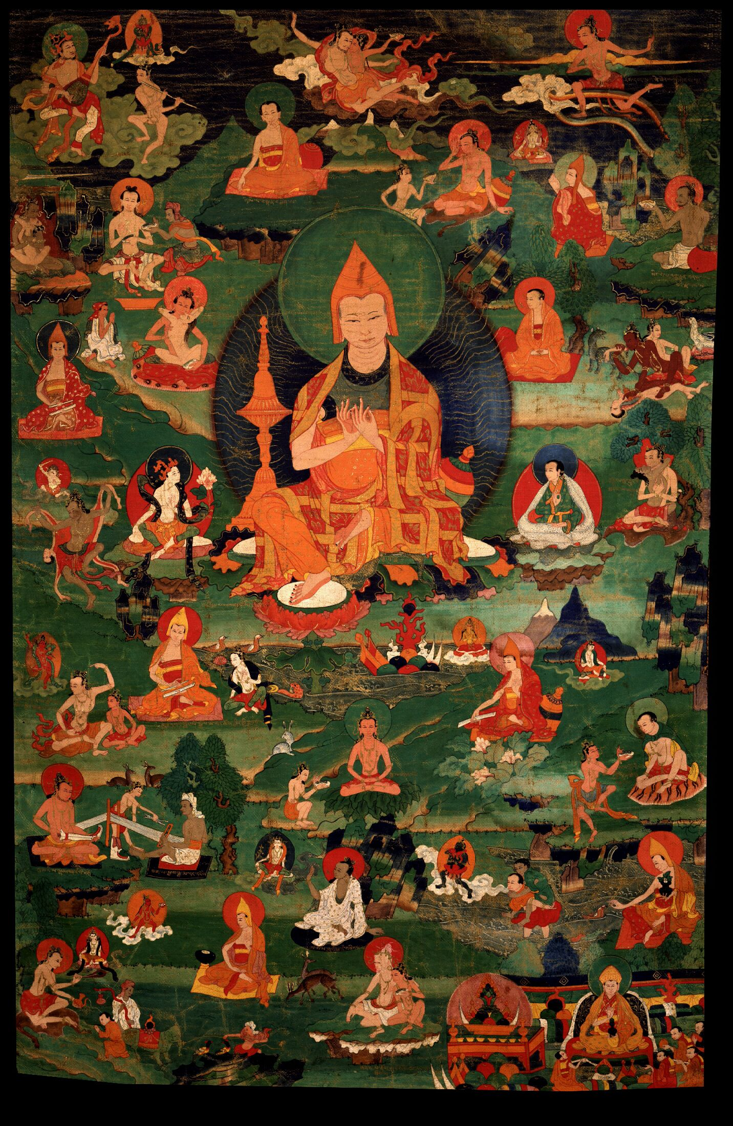 Atisha with Twenty-eight of the Eighty-four Mahasiddhas.